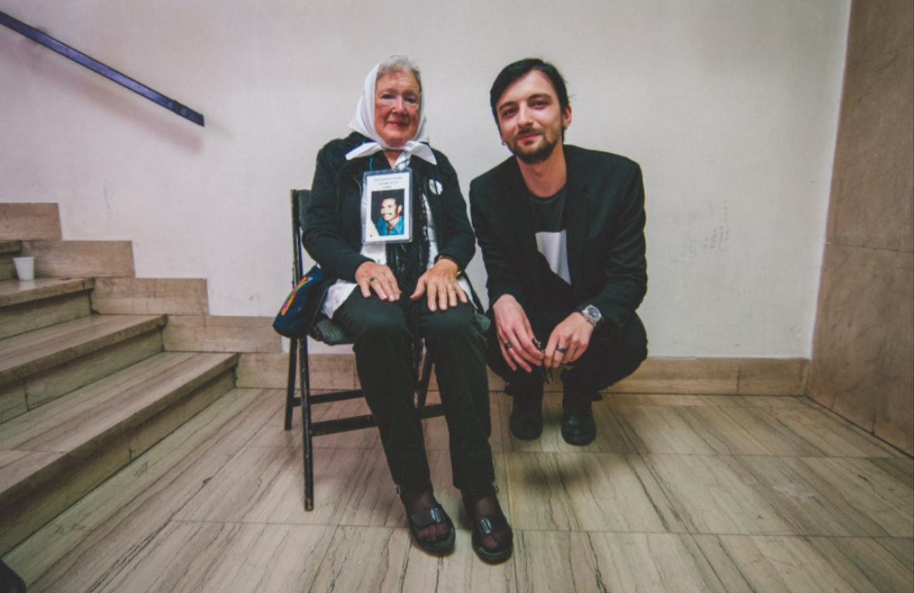 Edvin Kanka Cudic and Nora Cortinas